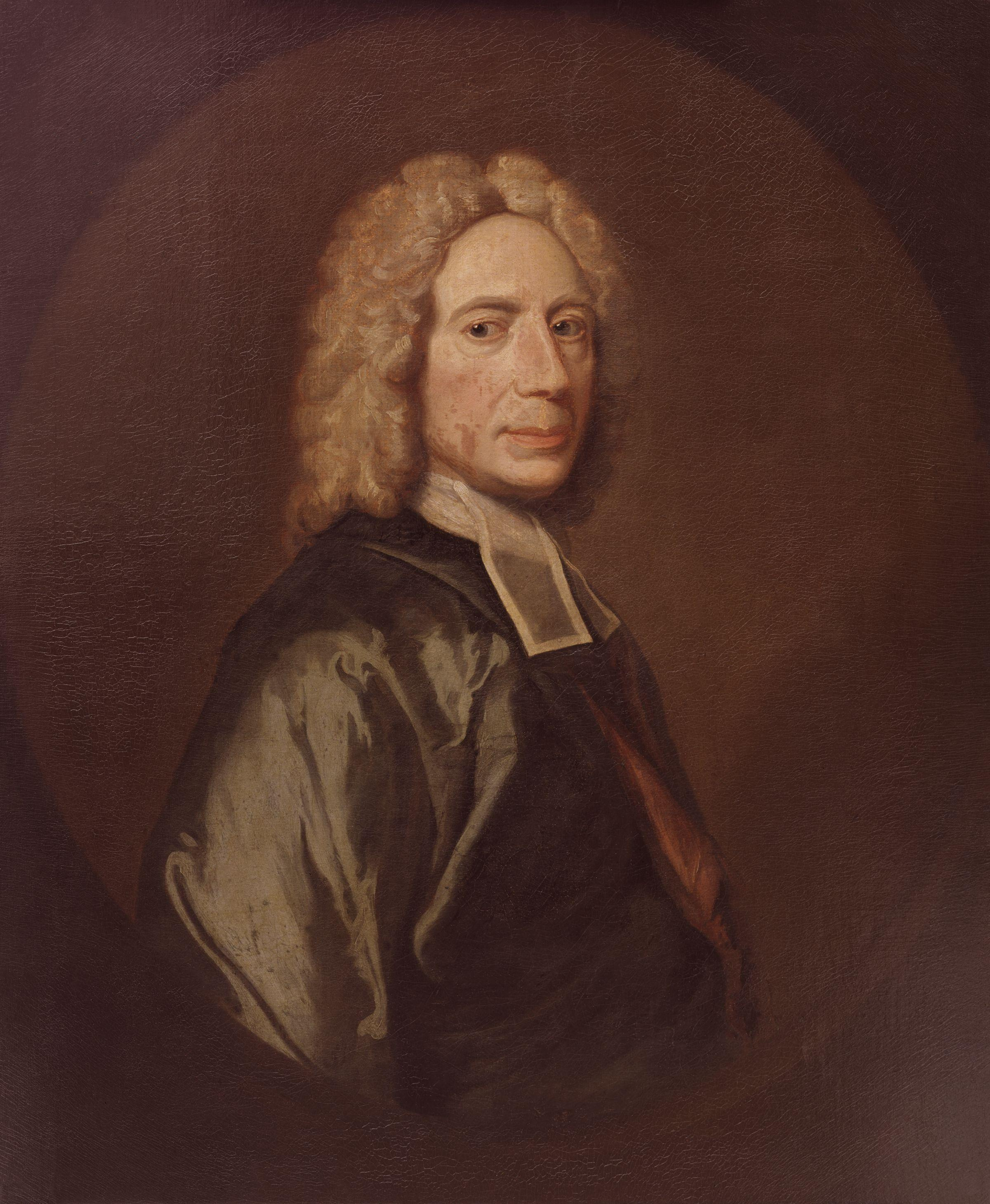 Isaac Watts, by unknown artist. All images in this batch are listed as "unknown author" by the NPG, who is diligent in researching authors, and was donated to the NPG before 1939 according to their website.